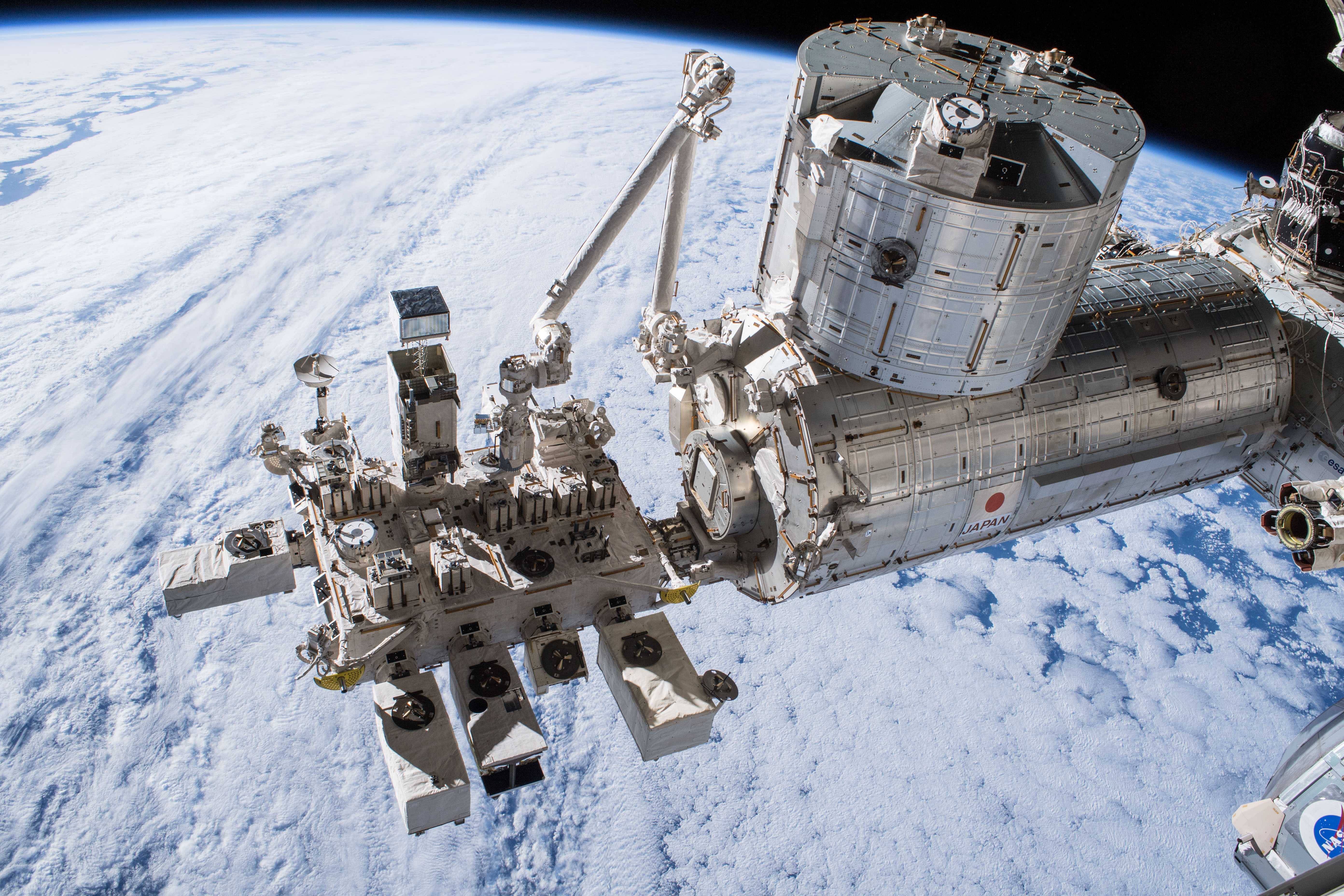 The Kibo laboratory module from the Japan Aerospace Exploration Agency (comprised of a pressurized module and exposed facility, a logistics module, a remote manipulator system and an inter-orbit communication system unit) was pictured as the International Space Station orbited over the southern Pacific Ocean east of New Zealand.